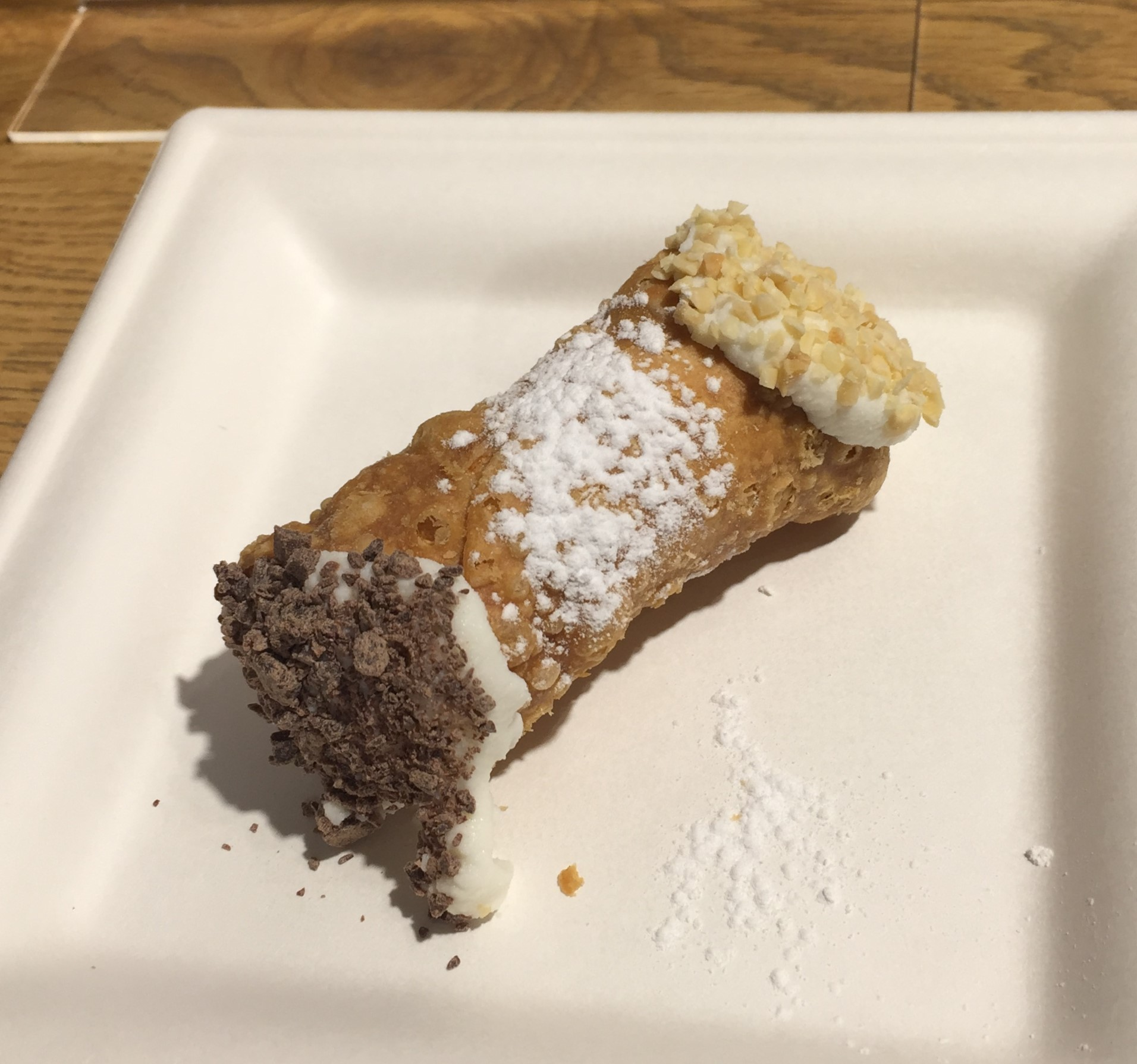 a cannolo topped with chocolate and almond at Eataly in Tokyo Station. The cream is put into the tube-shaped shell in front of the customer.